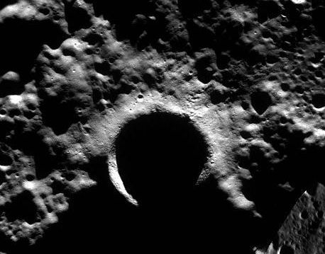 Image of moon crater Whipple from LROC-WAC north pole mosaic detail.